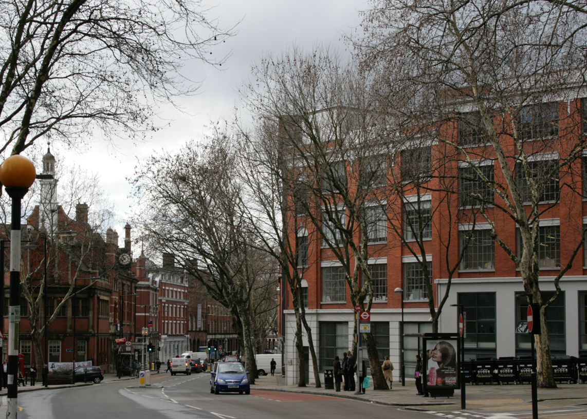 Rosebery Avenue, London. Looking SW from Hardwick Street.